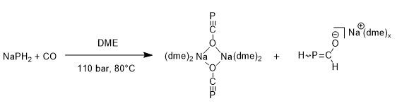 The chemical reaction scheme for the Grutzmaker synthesis of the PCO anion from 2011.